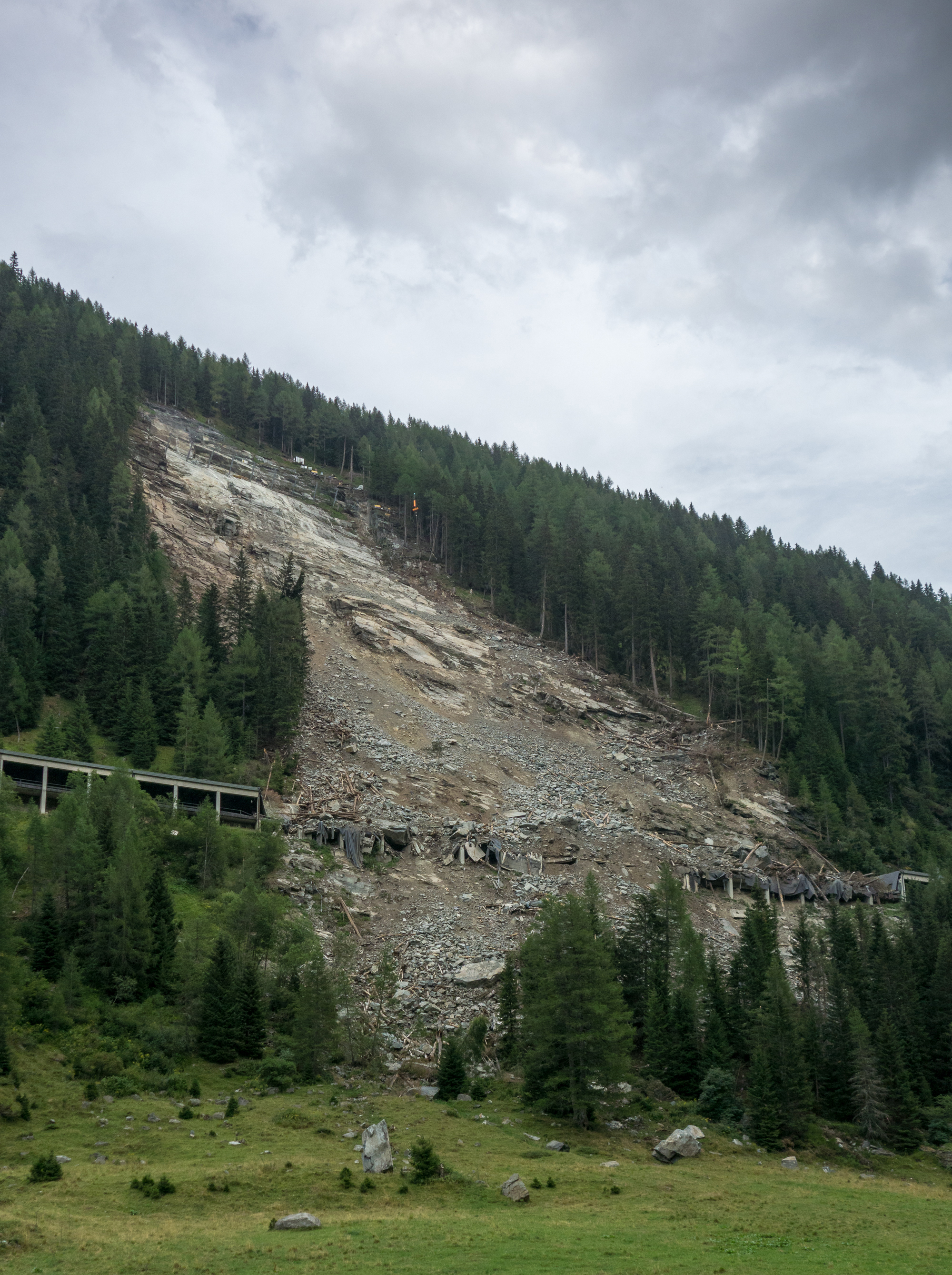 The destroyed Schildalmgalerie after a mighty rock fall.